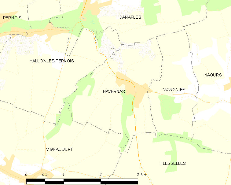 Map of French municipality Havernas